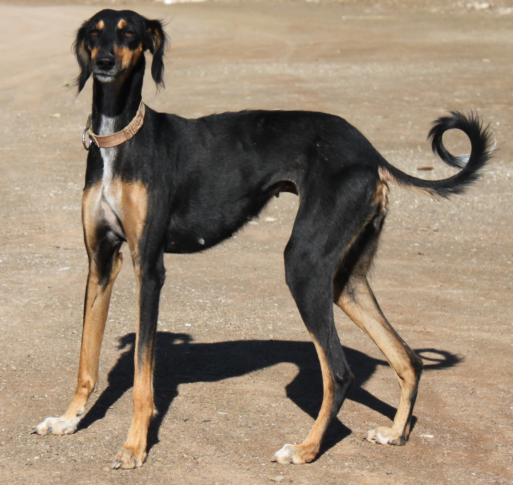 This is a female Persian Saluki from Kermanshah, Iran. این یک تازی ایرانی از منطقه‌ی کرمانشاه است